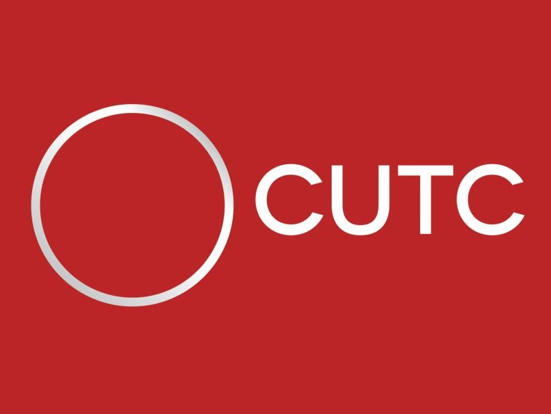 Redesigned CUTC brand in 2012